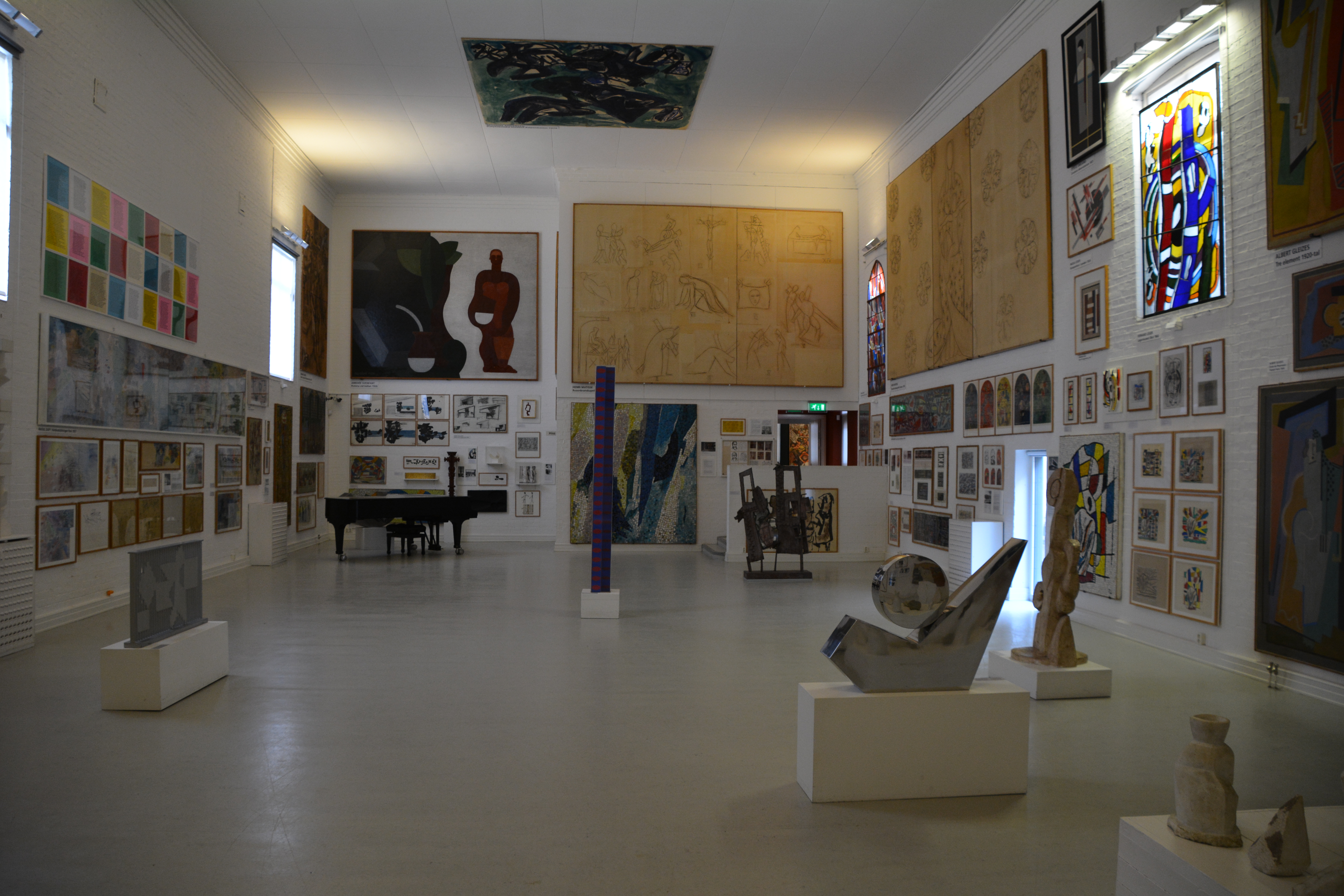 Interiör, Skissernas museum, Lund